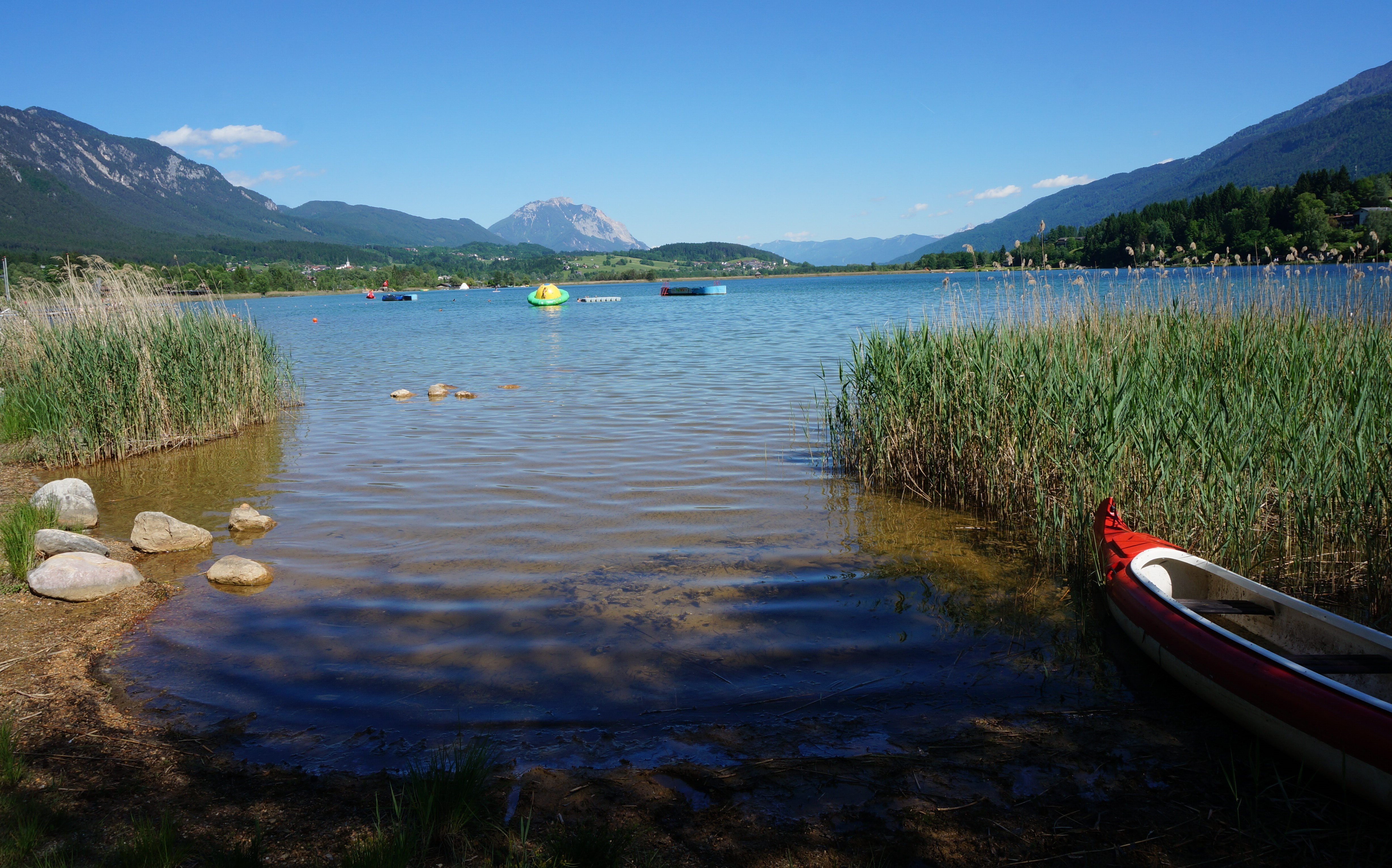 Lake "Pressegger See" in Upper Carinthia, Austria, EU